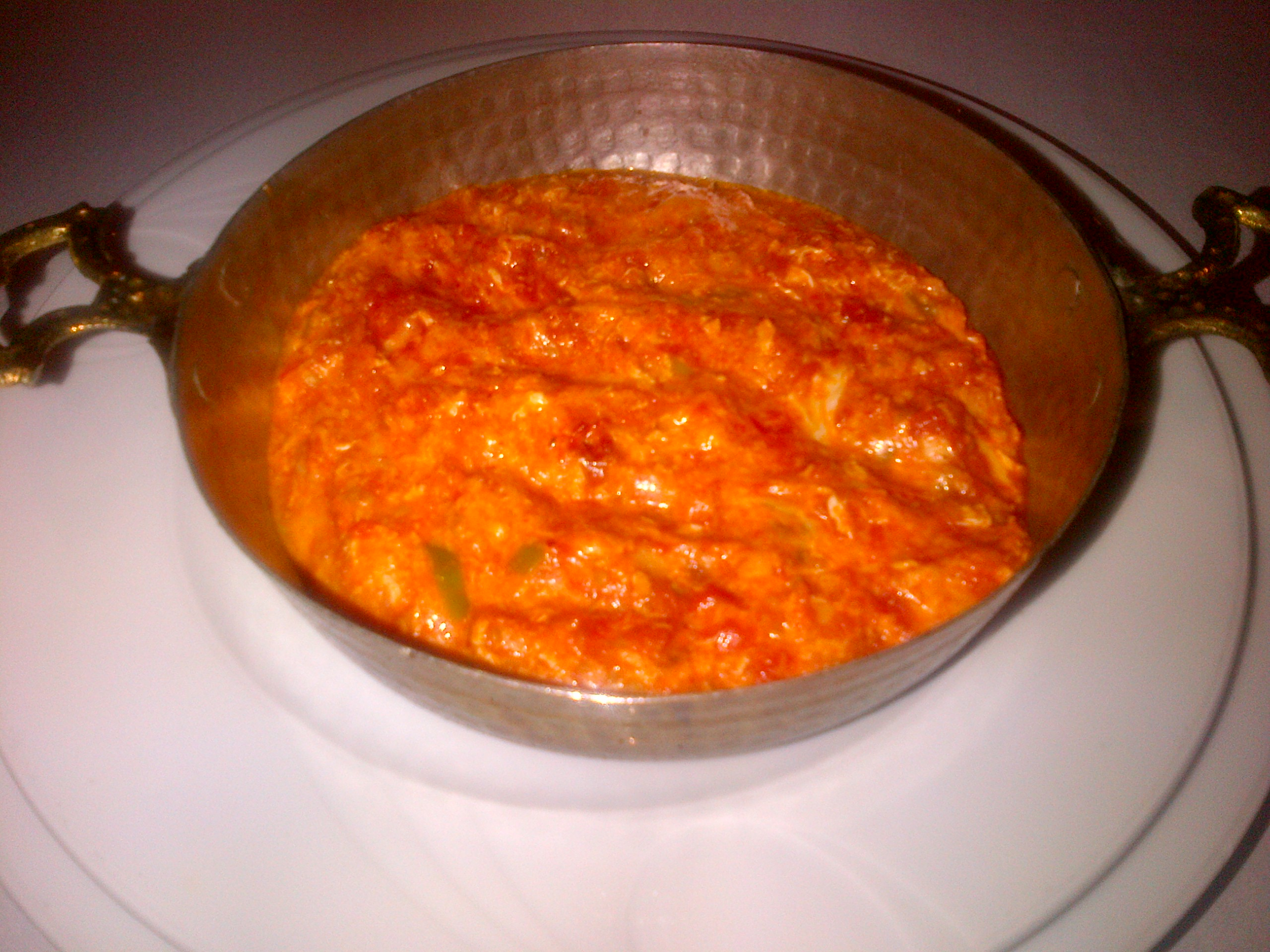 Turkish egg and tomato dish "menemen", served in the individual "sahan" in which it was cooked.